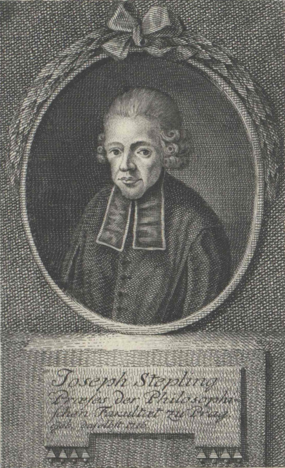 Joseph Stepling (1716–1778)